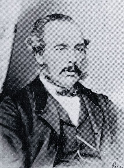 Isaac Luck arrived in Lyttelton on the Steadfast in 1851. He was a skilled practical builder rather than a professional architect. He was the builder of the first Anglican church in Lyttelton, Benjamin Mountfort being the architect. Later Luck married Mountfort's sister, Susanna. Soon after he won the 1856 contract to tear down the Lyttelton church his brother-in-law had designed. From 1857-1864 he entered an architectural partnership with Mountfort. From 1864 this partnership was part-time as Luck had a second partnership with an auctioneer, Charles Clark. There is a memorial to Isaac Luck in Christchurch Cathedral.